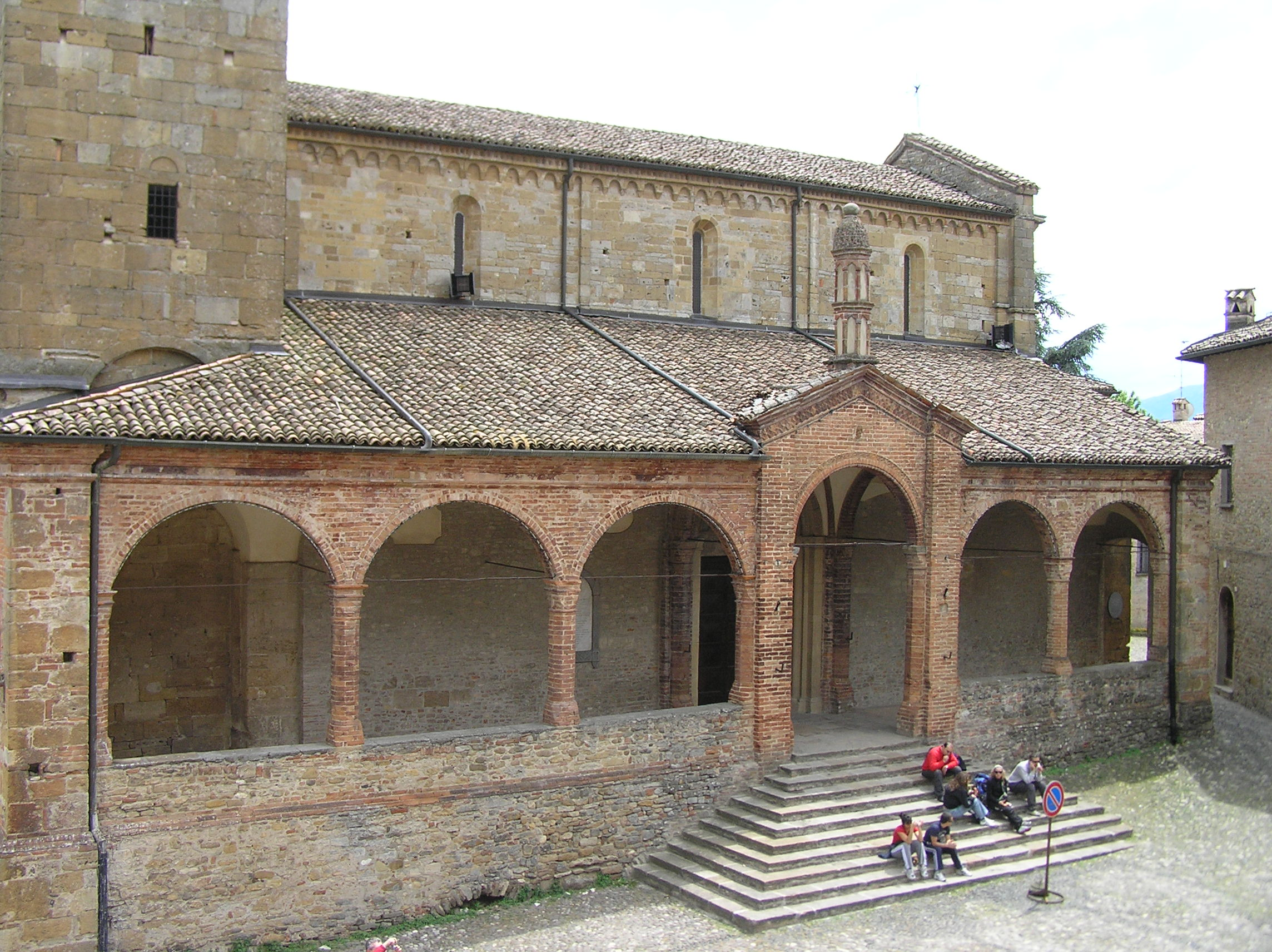 Castell'Arquato's Collegiata